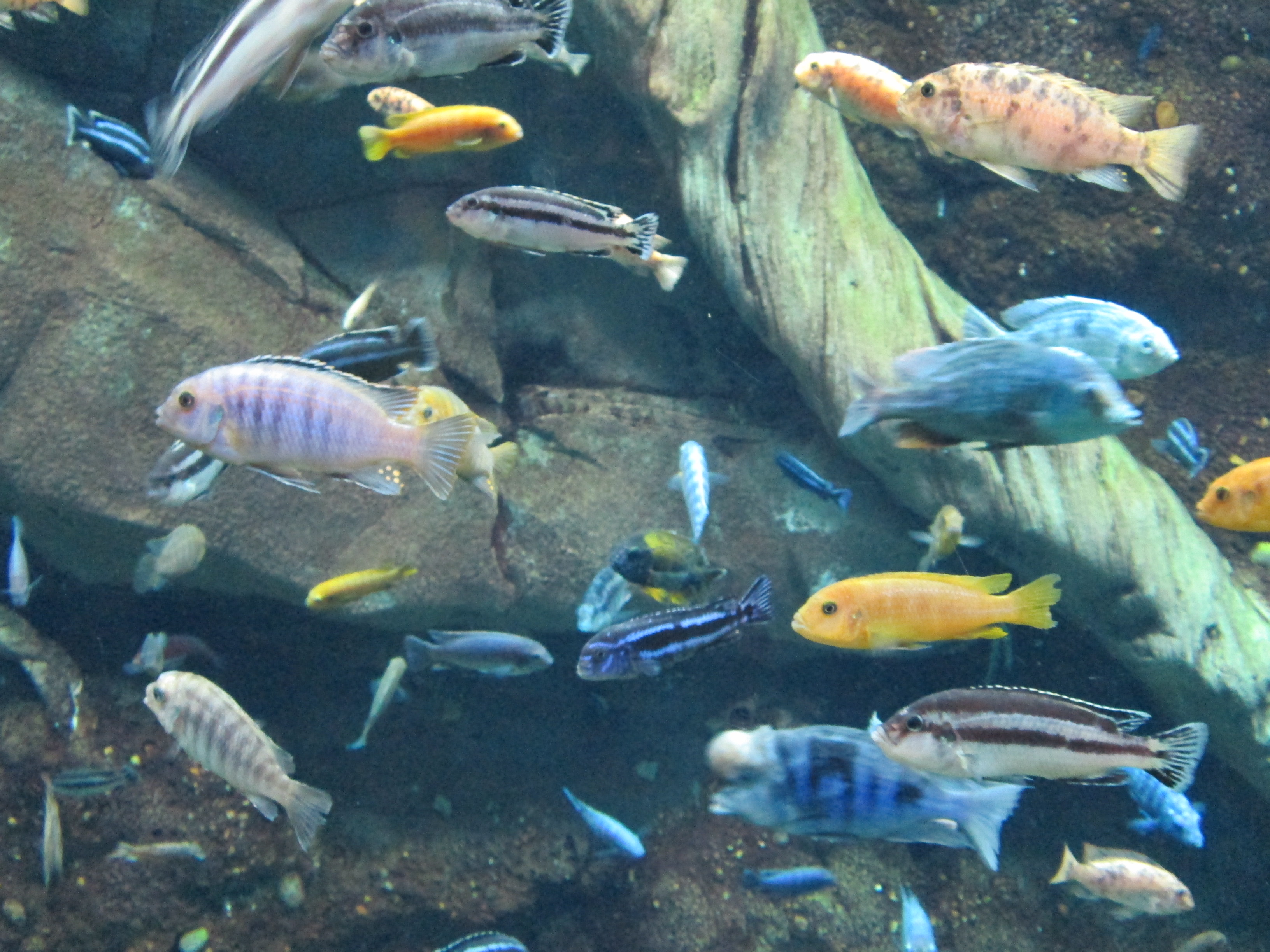 African cichlids at Georgia Aquarium.